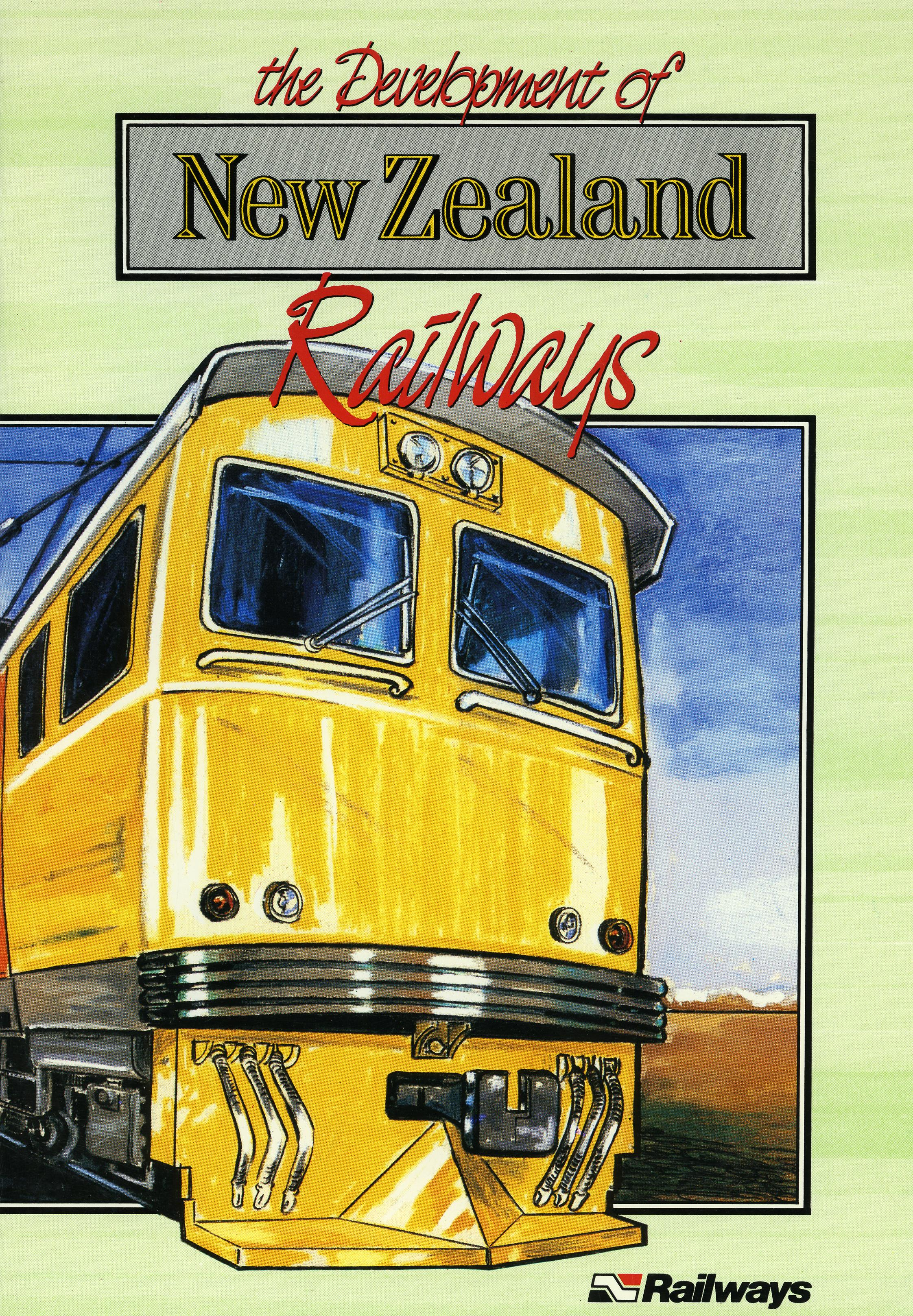 Archives Reference: ABIN W3337 Box 147 Image is of the front cover of a commerative pamphlet about the development and history of New Zealand Railways. Printed in 1987.